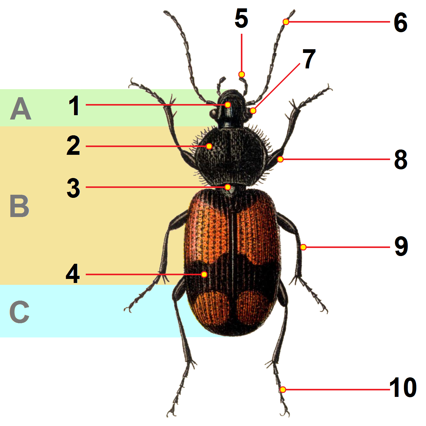 Adult beetle, tags added